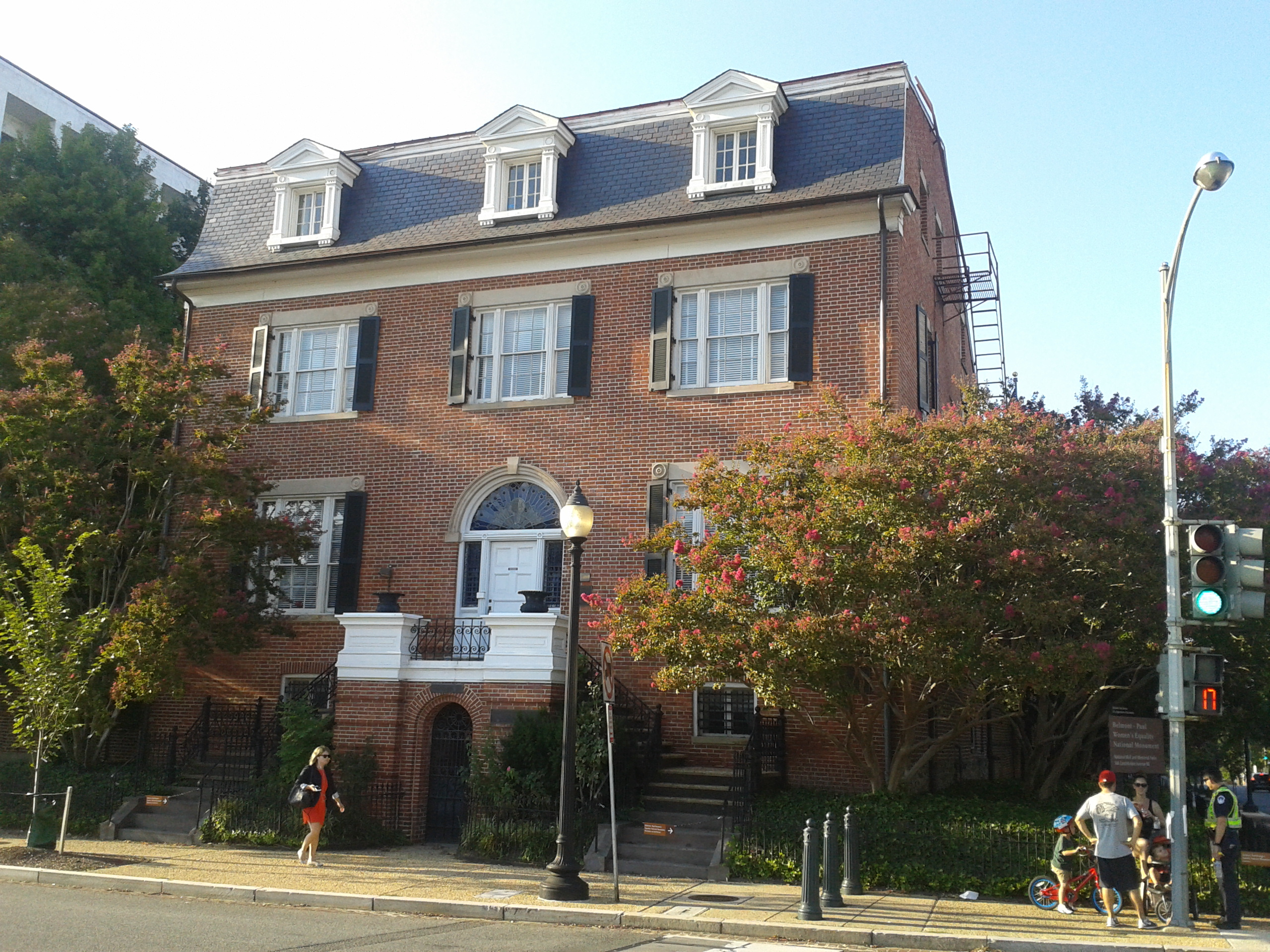 The newly-designated Belmont-Paul Women's Equality National Monument in September, 2016